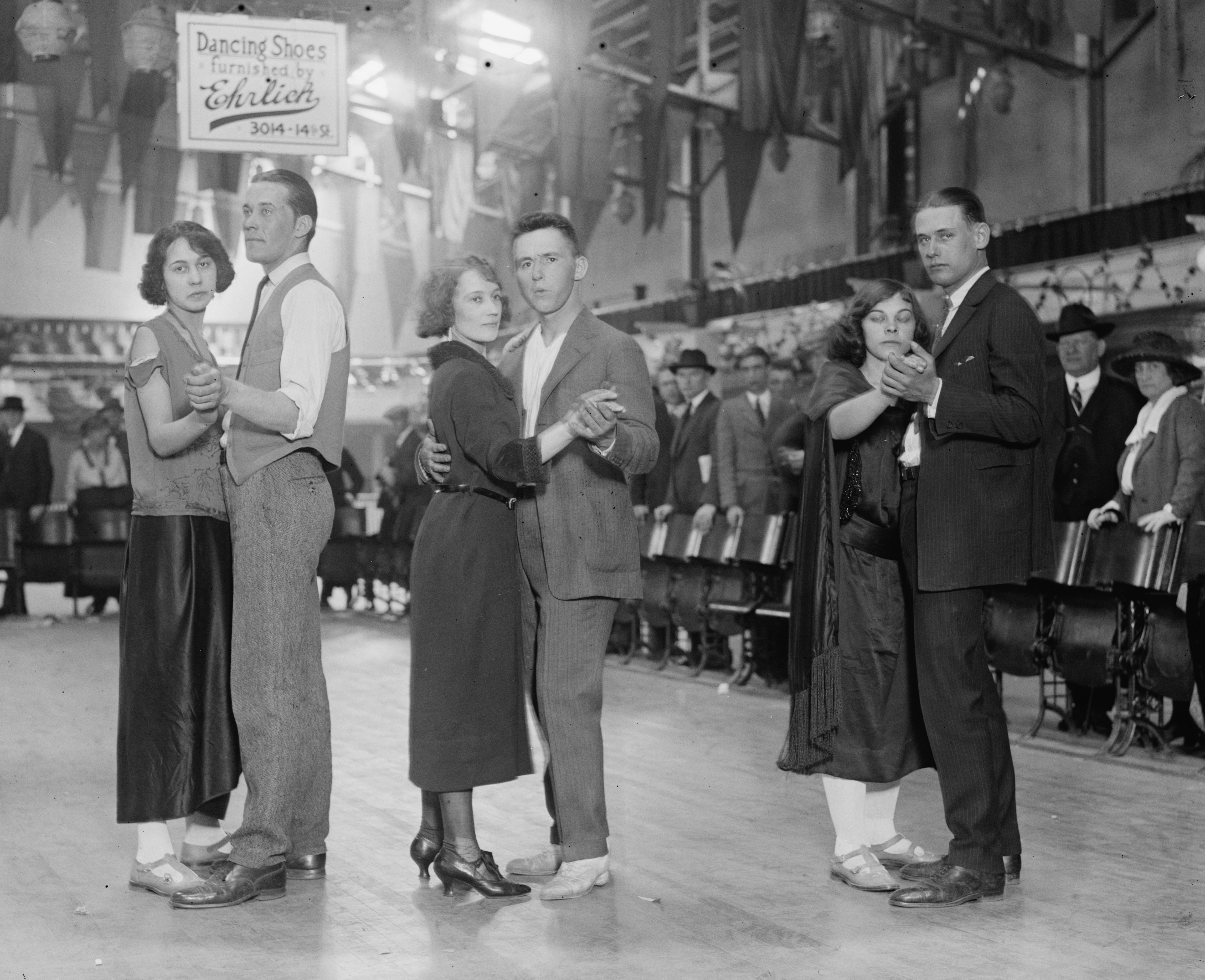 Marathon dancers, 4/20/23. 1 negative : glass ; 4 x 5 in. or smaller